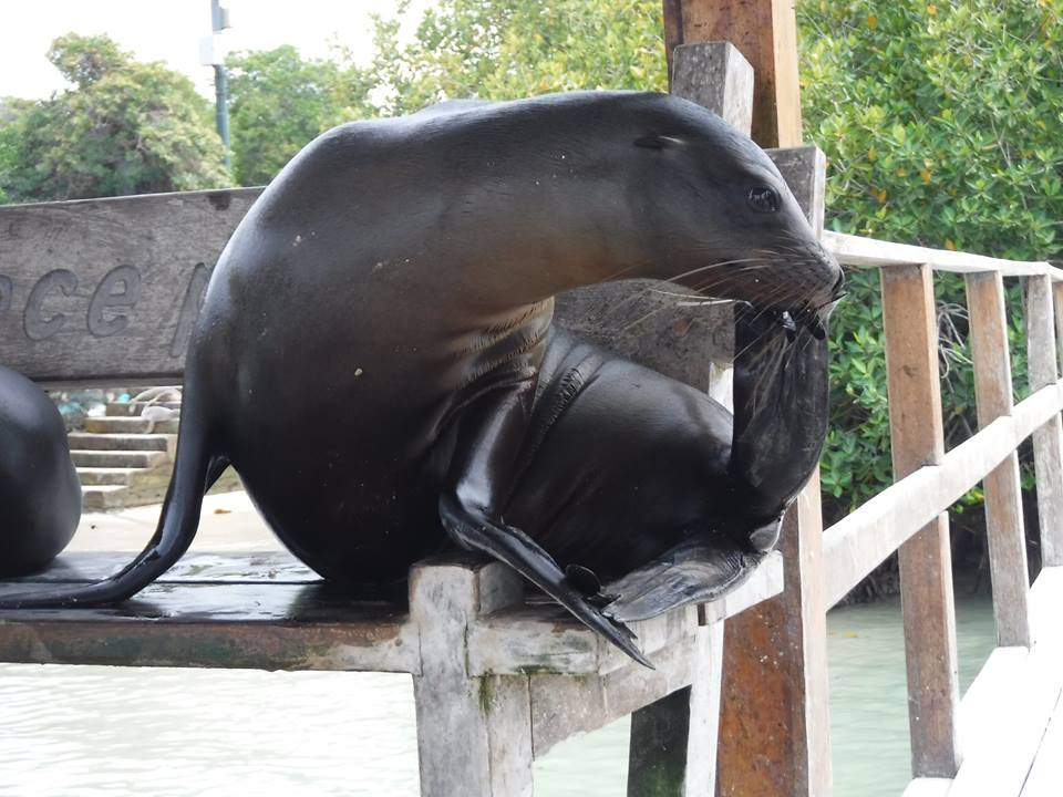 G. Sea Lion, Puerto Ayora, 2016